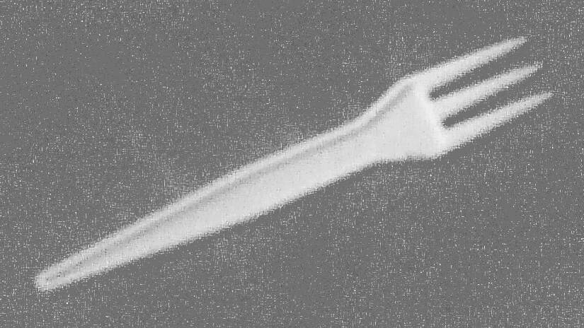 Tool to eat fernch fries in the Netherlands, called a chip fork